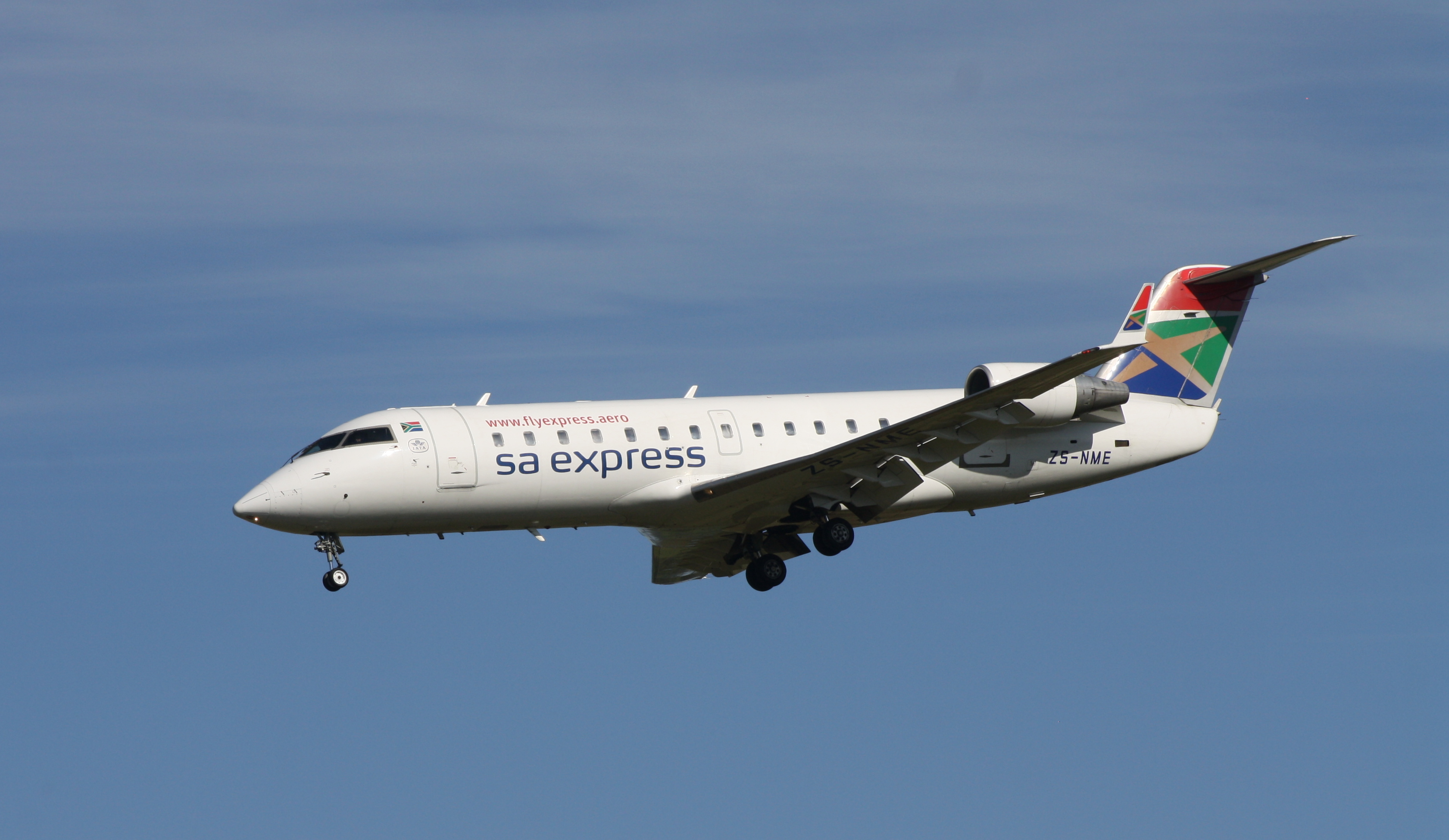 South African Express RJ CL600-2B19 CRJ-200ER ZS-NME